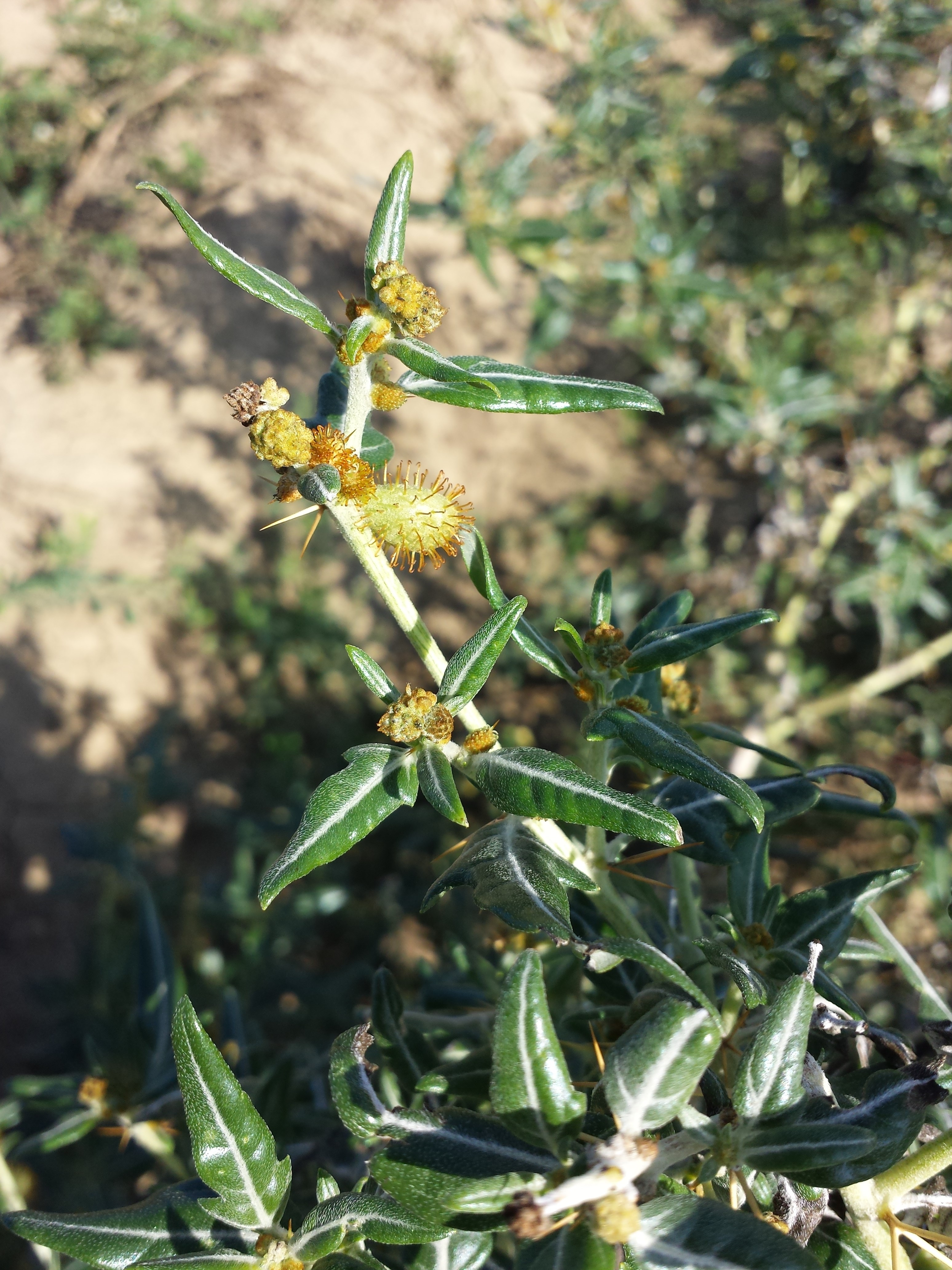 Stem with leaves, spines and flower baskets Taxonym: Xanthium spinosum ss Fischer et al. EfÖLS 2008 ISBN 978-3-85474-187-9 Location: 0,7 km nordöstlich von Roseldorf, district Korneuburg, Lower Austria - 240 m a.s.l. Habitat: field of potatoes